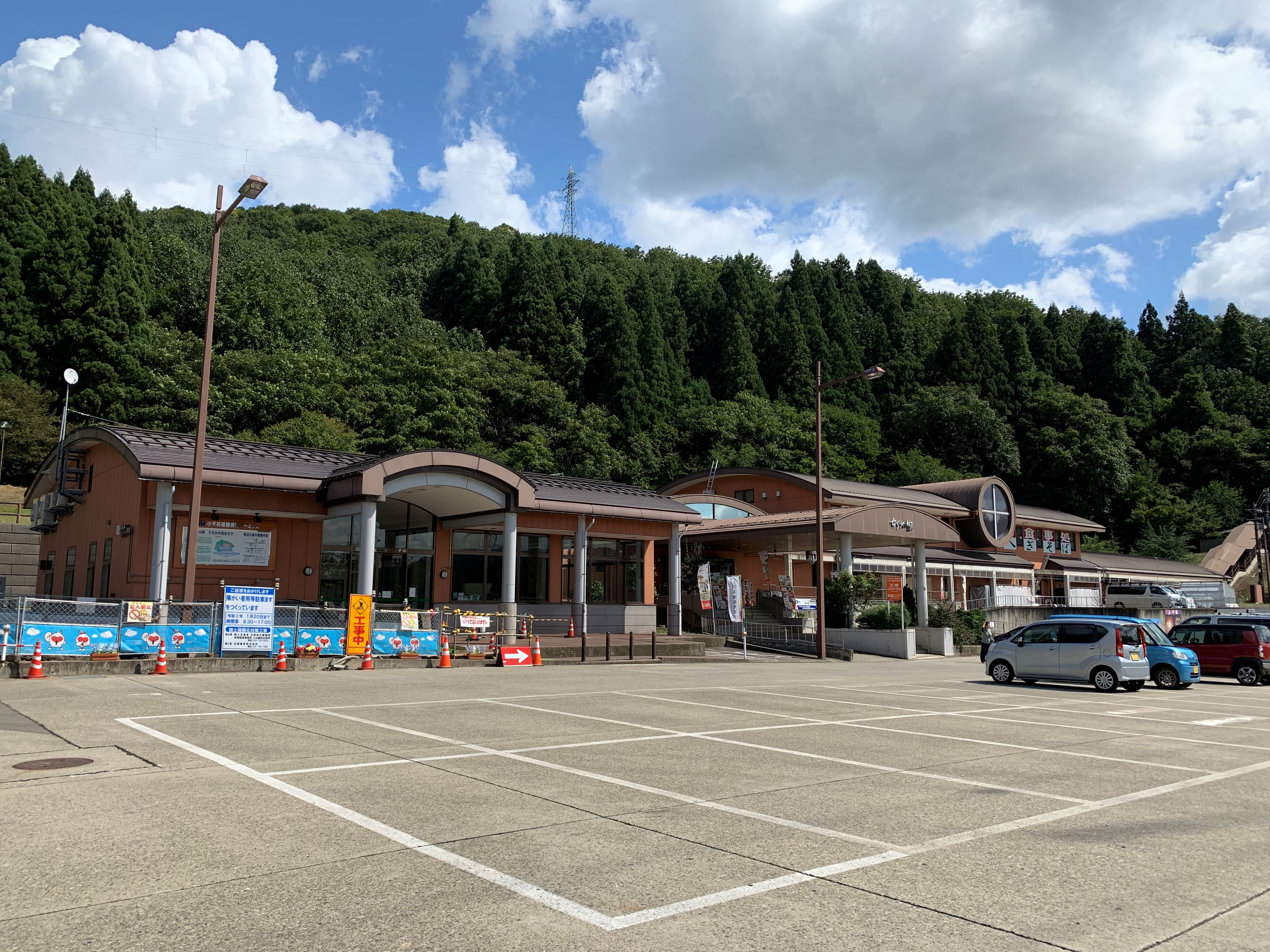 Chijimi no sato Ojiya, Michi no Eki (Roadside Station), Niigata, Japan. Took photo in September 2019.